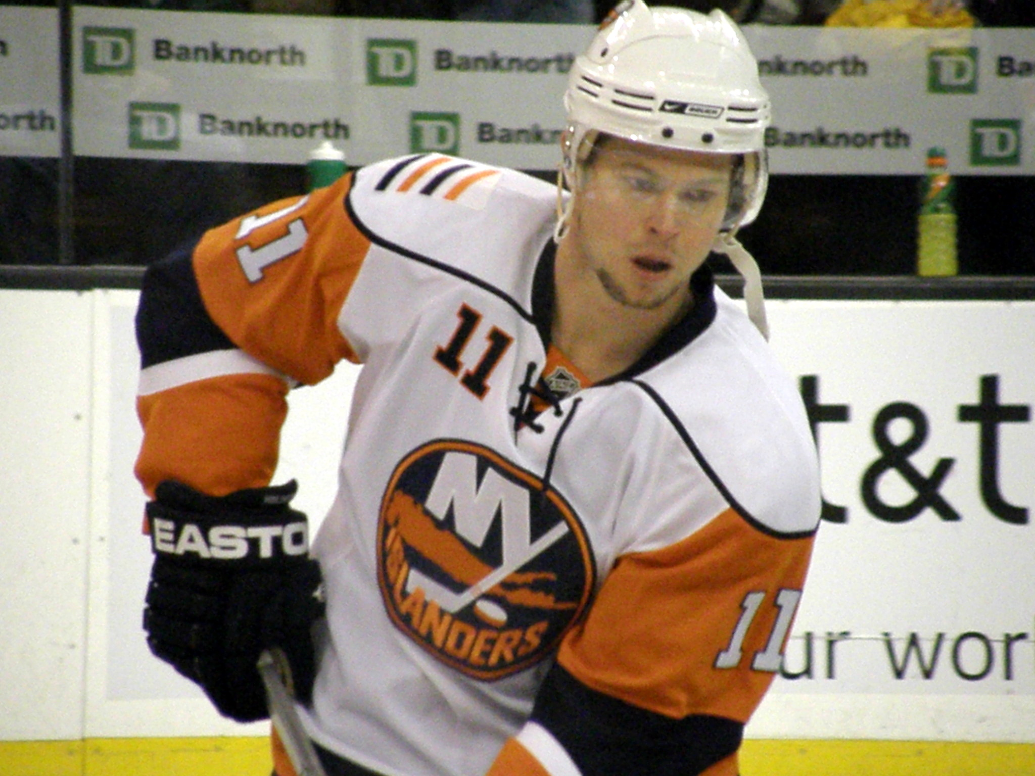 #11 Andy Hilbert